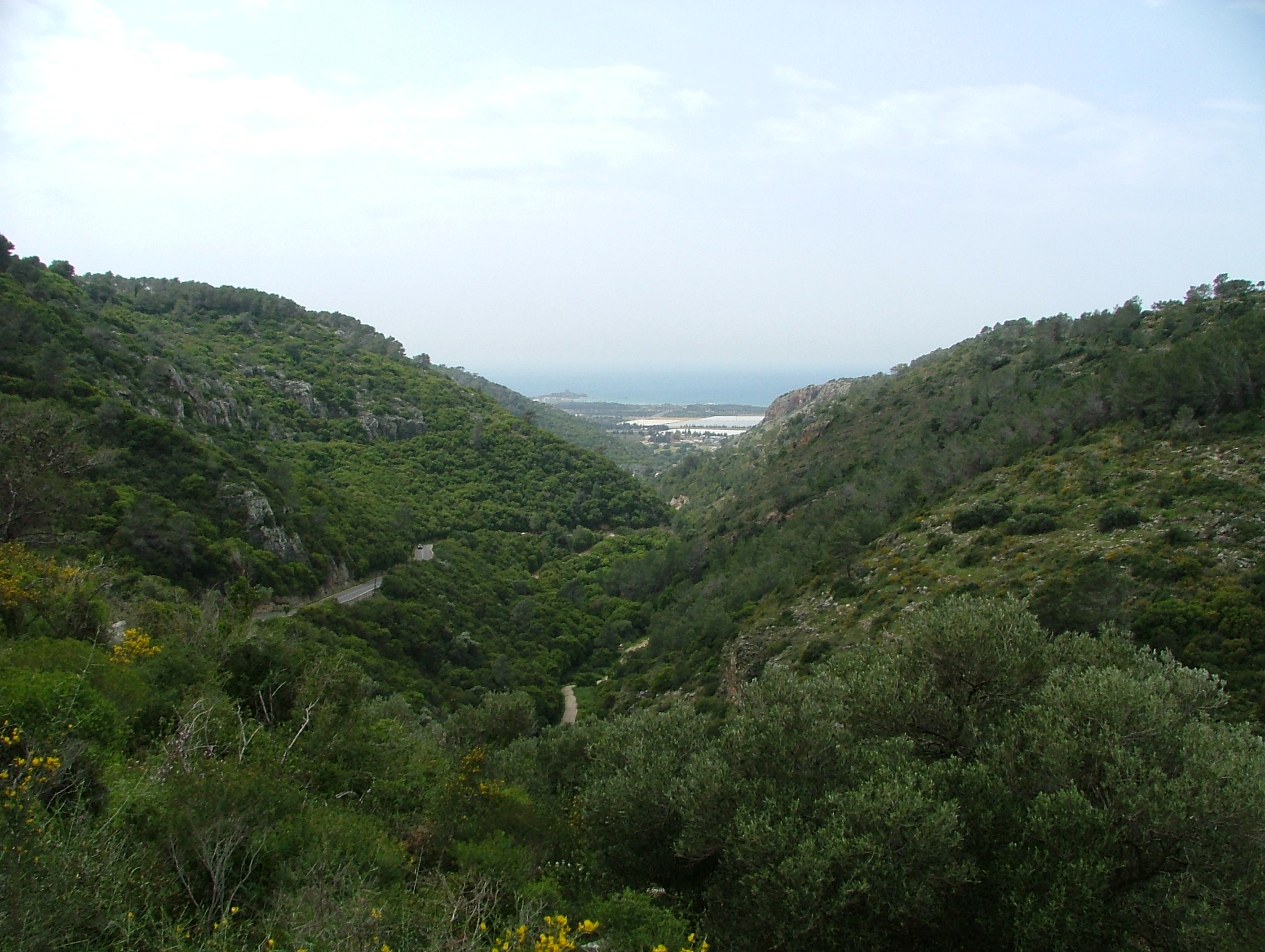 view from carmel mountain to the sea